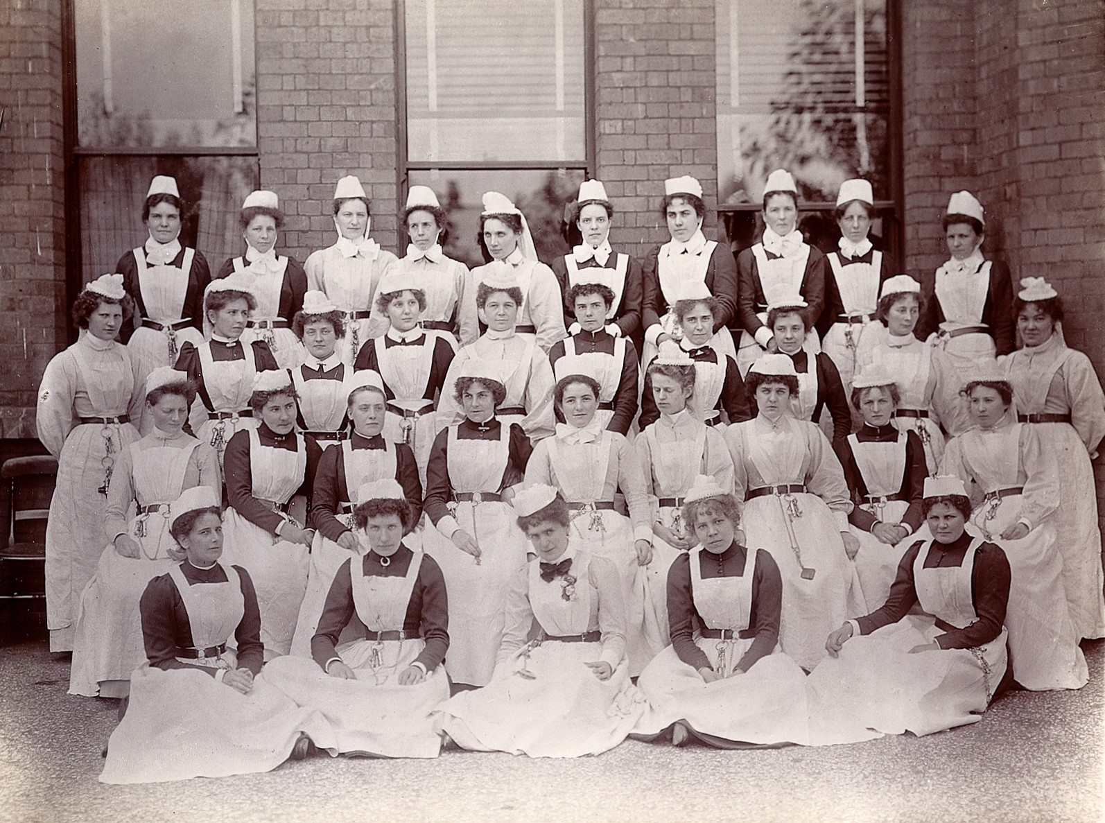 Claybury Asylum, Woodford, Essex: thirty-four nurses. Photograph by the London & County Photographic Co., [1893?]. Iconographic Collections Keywords: Institutions; Nursing; Hospitals; London; Claybury Asylum (Woodford, Essex); London & County Photographic Co..